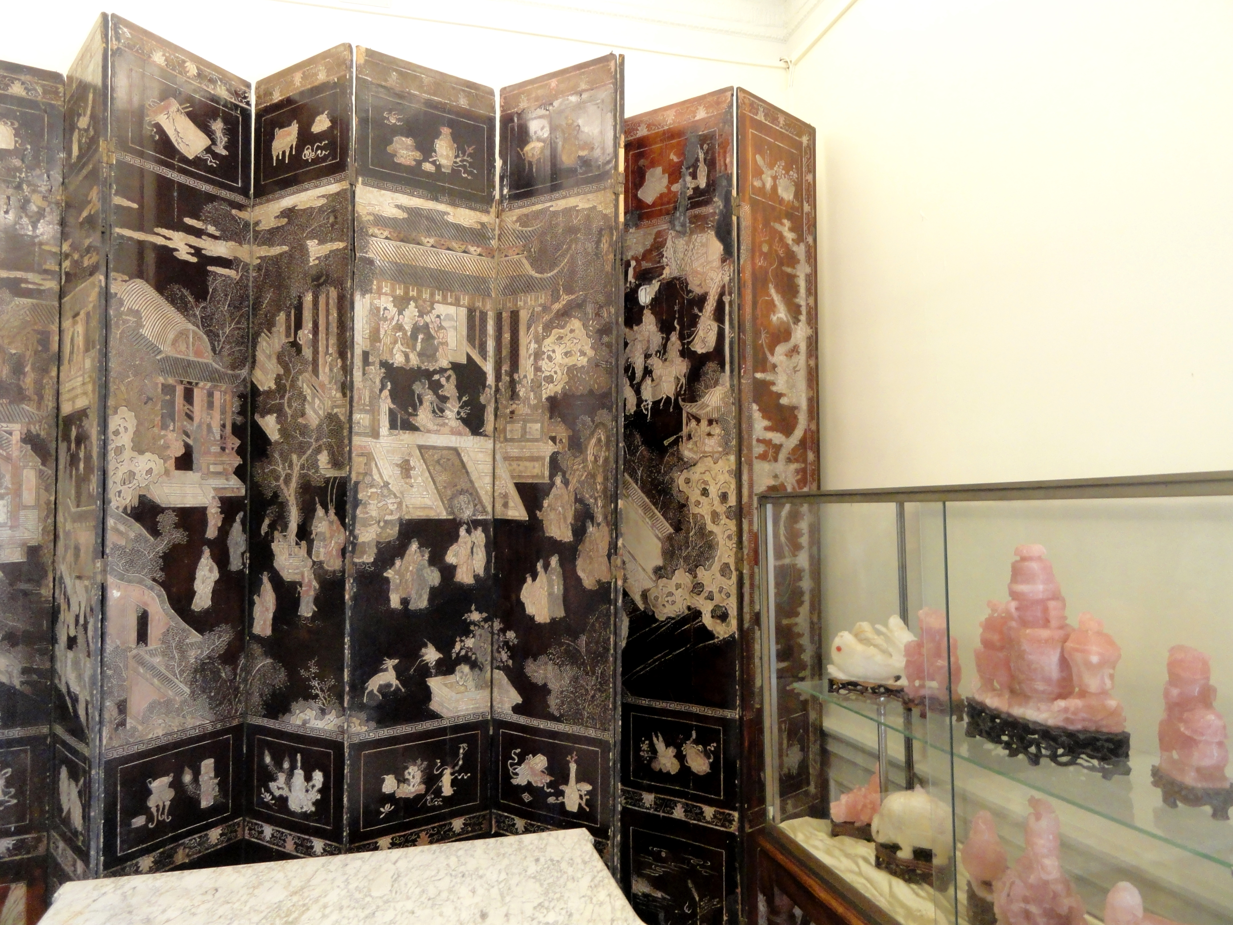 Coromandel lacquer folding screen. Miscellany in the Villa Ephrussi de Rothschild, Saint-Jean-Cap-Ferrat, France.